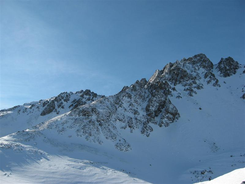 Mount Olympus, NZ - on the left